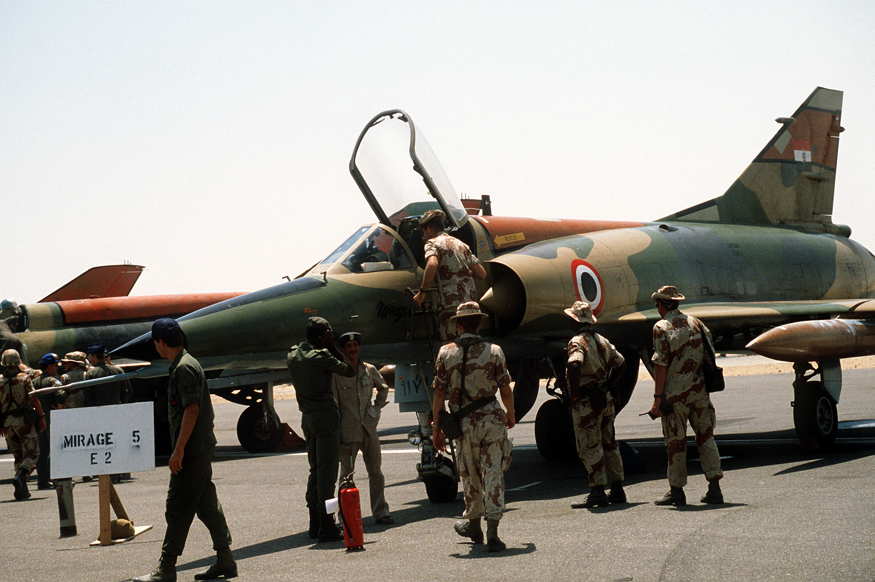 U.S. military personnel inspect an Egyptian Mirage 5 aircraft on display during the multinational joint service exercise "Bright Star '85" at Cairo-West Air Base, Al Qahirah, Egypt, on 1 August 1985.